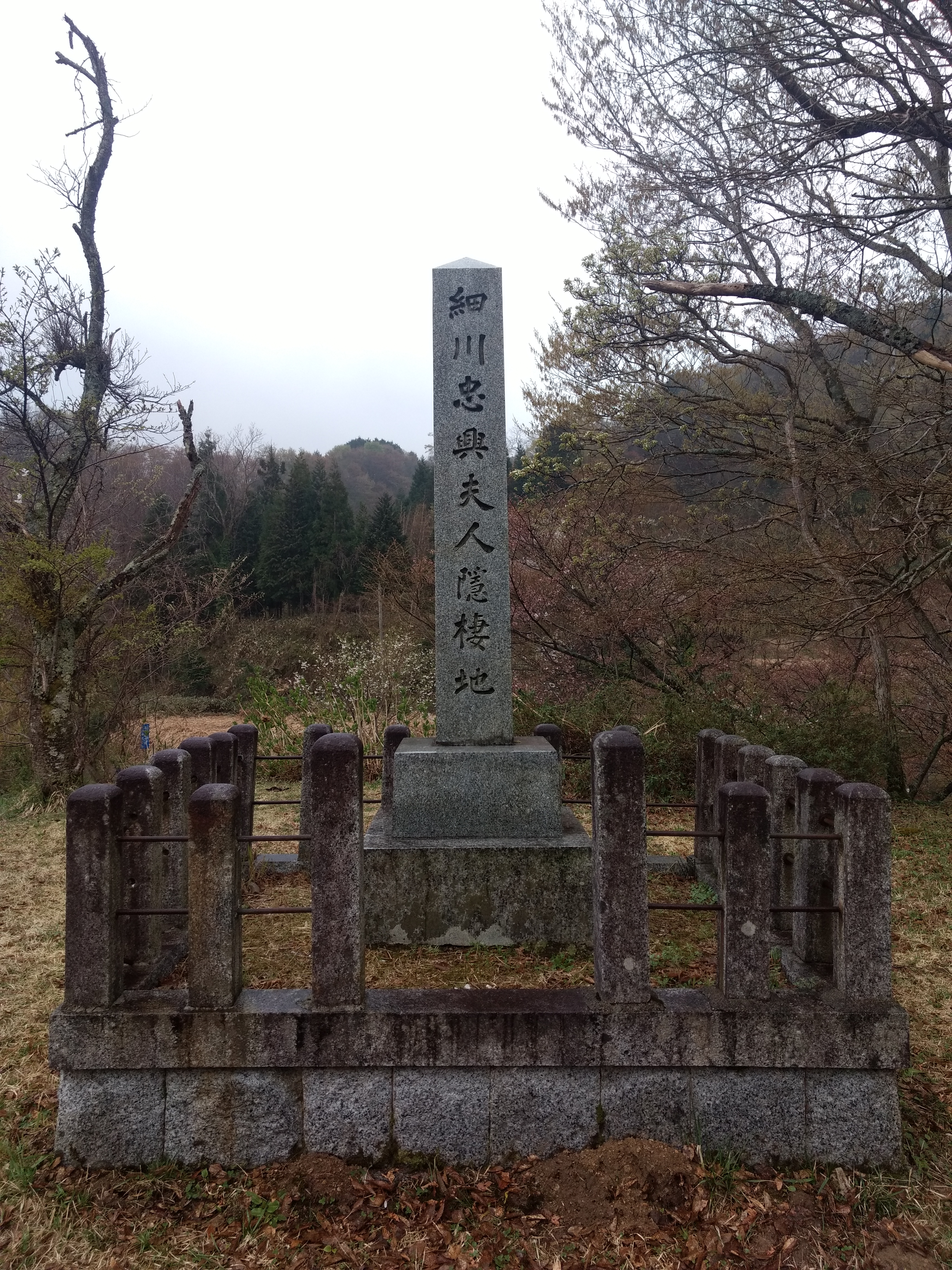 This monument was erected in the 11th year of the Shōwa period to mark the area where Hosokawa Garasha lived in hiding for two years, 1582-1584.